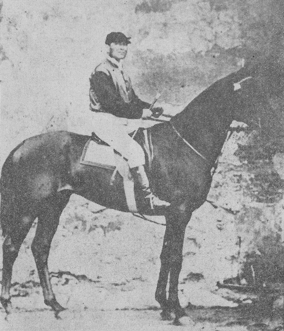 Italian rider Ranieri Galletti on Fitz Orphelin.